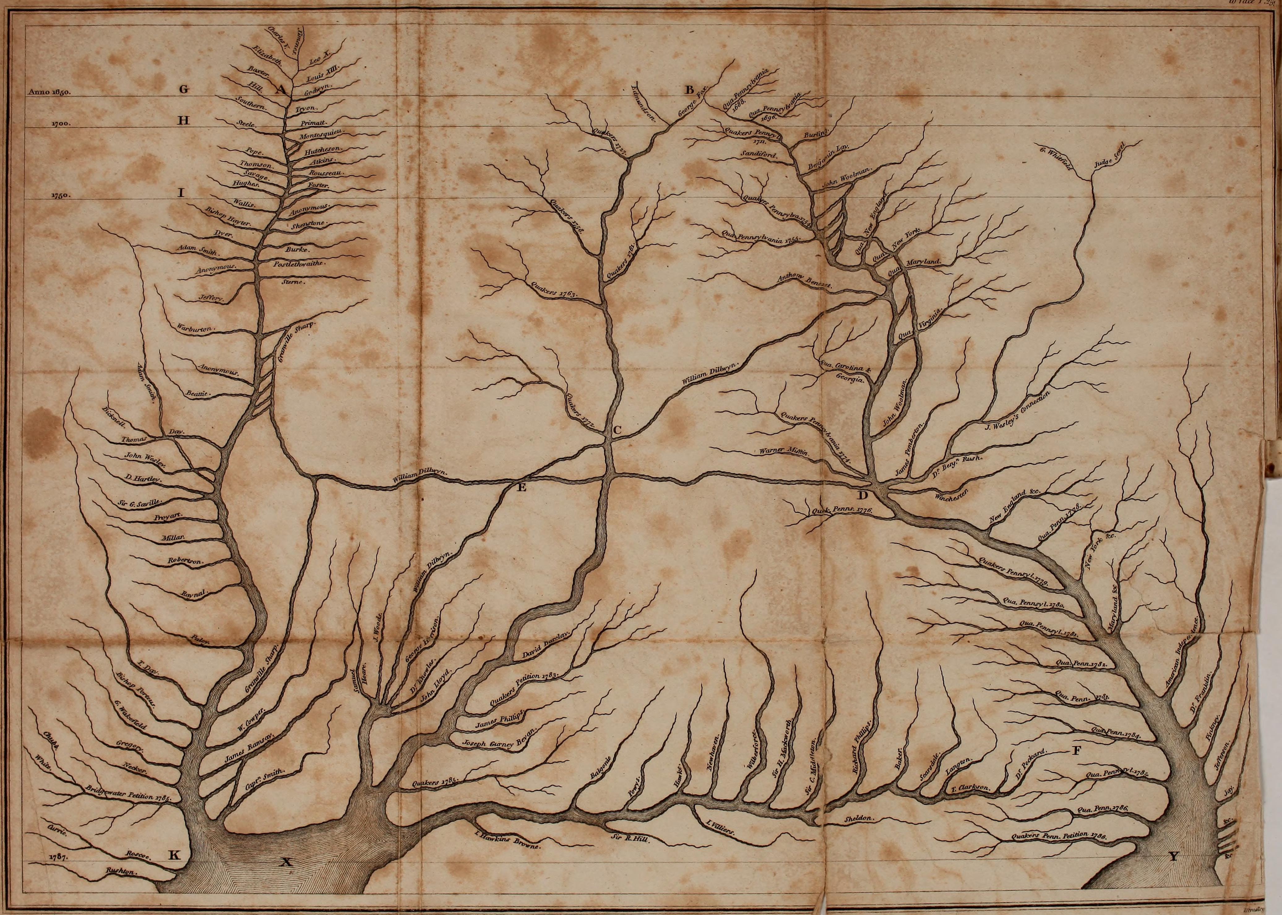 Title: The history of the rise, progress, and accomplishment of the abolition of the African Slave-trade by the British parliament Year: 1808 (1800s) Authors: Clarkson, Thomas, 1760-1846 Subjects: Slave trade Publisher: London, Longman, Hurst, Rees, and Orme Text Appearing Before Image: T /,. faa T.i Text Appearing After Image: ABOLITION OF THE SLAVE-TRADE, 259 CHAPTER XL TJic preceding lustofy of the different classes ofthe Jbrerutim rs and coadjutors, to ike time of the formation of the committer, collected into onelew h/ means of a map—Explanation of thismap—and observations upon it. As the preceding history of the differentclasses of the forerunners and coadjutors,to the time of their junction, or to theformation of the committee, as just ex-plained, may be thought interesting bymany, I have endeavoured, by means ofthe annexed map, so to bring it before thereader, that he may comprehend the wholeof it at a single view- The figure beginning at A and reachingdown to X represents the first class of fore-runners and coadjutors up to the year 1787,as consisting of so many springs or rivulets,which assisted in making and swelling thetorrent which swept away the Slave-trade. The figure from B to C and from C toX represents the second class, or that or:li£ Quakers in England, up ,to the same S 2 time. 260 T